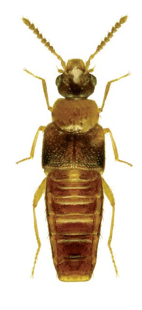 Dorsal view of Gyrophaena (G.) sculptipennis (apical part of abdomen removed).